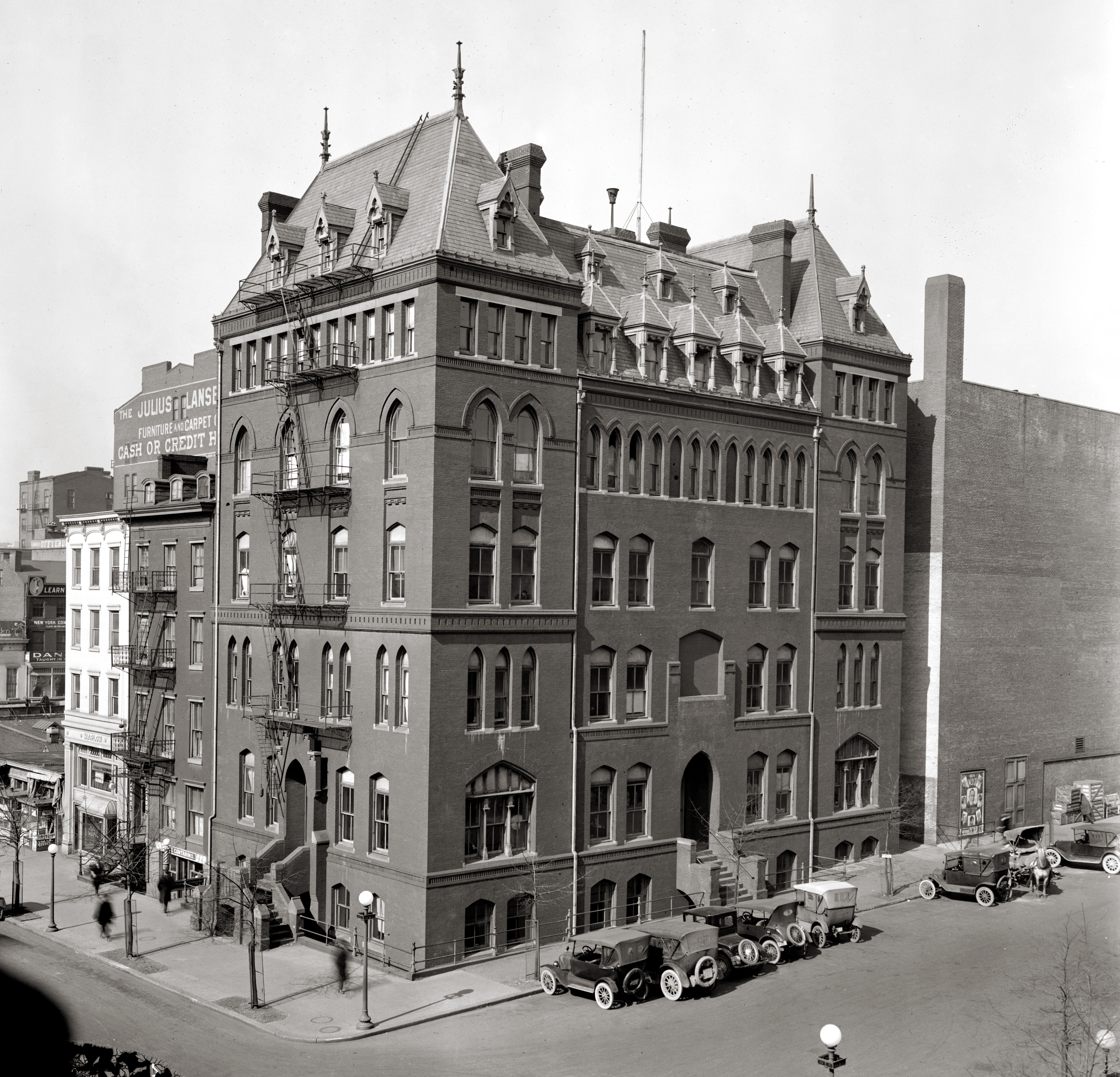 Women's dormitories, operated by the Salvation Army, located on the northwest corner of 8th & E Streets, NW in Washington, D.C. The building originally served as offices for the U.S. Civil Service Commission. It was sold to the Salvation Army in 1920 and later demolished.